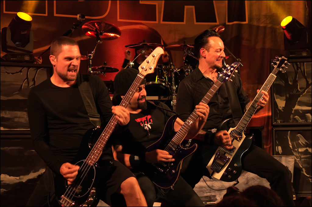 Volbeat performing in Madrid in 2013